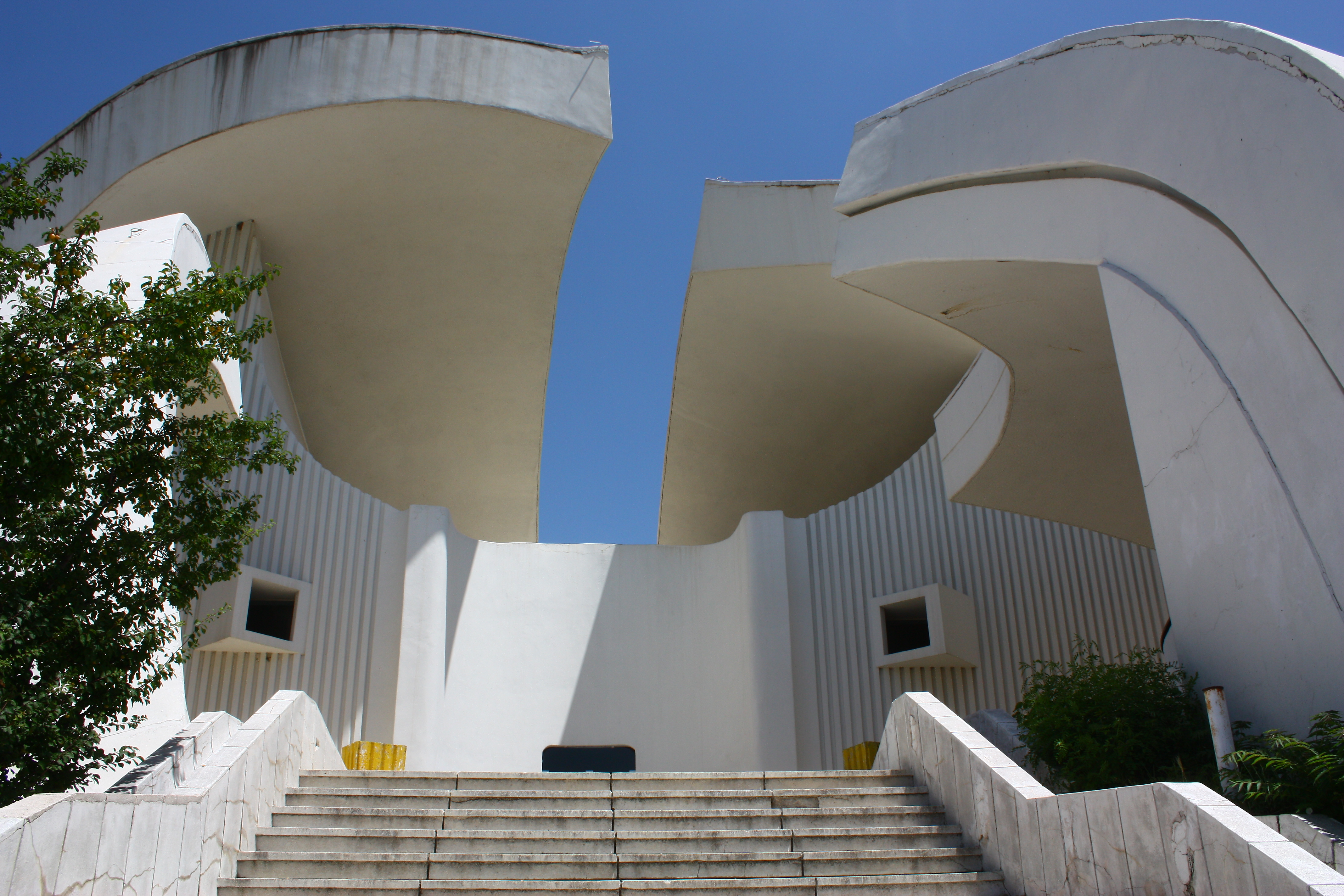 "Memorial Charnel house to the heroes of the Second World War from Veles and its district", Veles, Macedonia